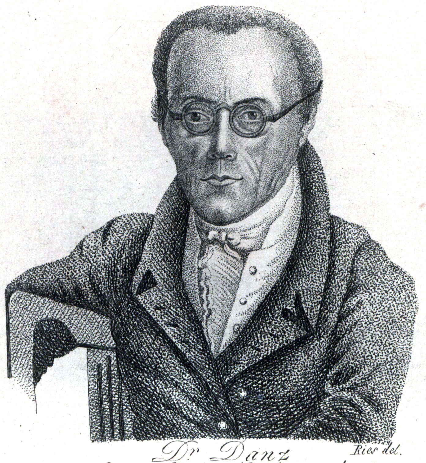 Johann Traugott Leberecht Danz (1769-1851) german protestant Theologian